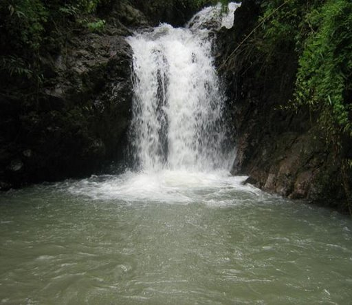 La Conquista waterfall